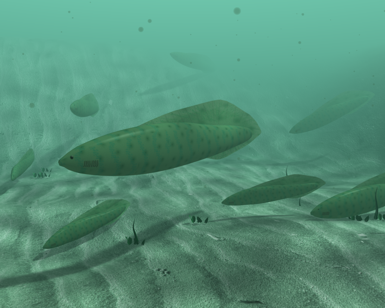 Reconstruction of Haikouichthys ercaicunensis. Based on actual fossil evidence.